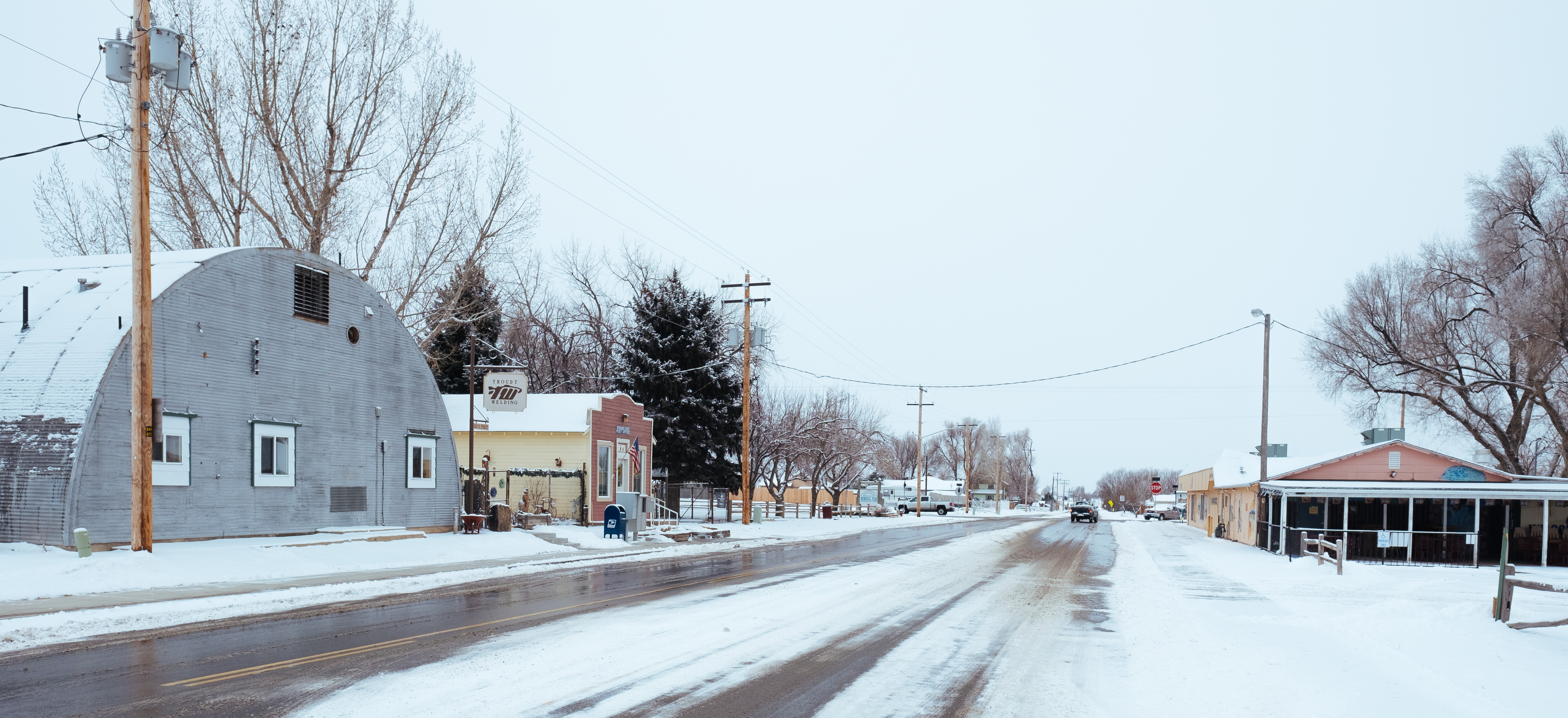 1st Street